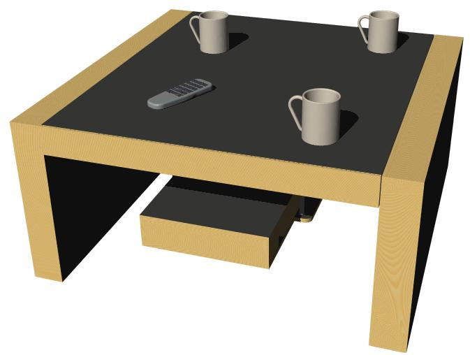 3D model of a coffee table designed in Pro/DESKTOP.